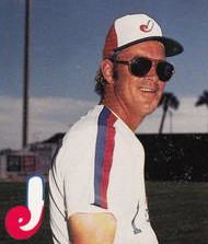 Professional baseball manager Tommy Thompson